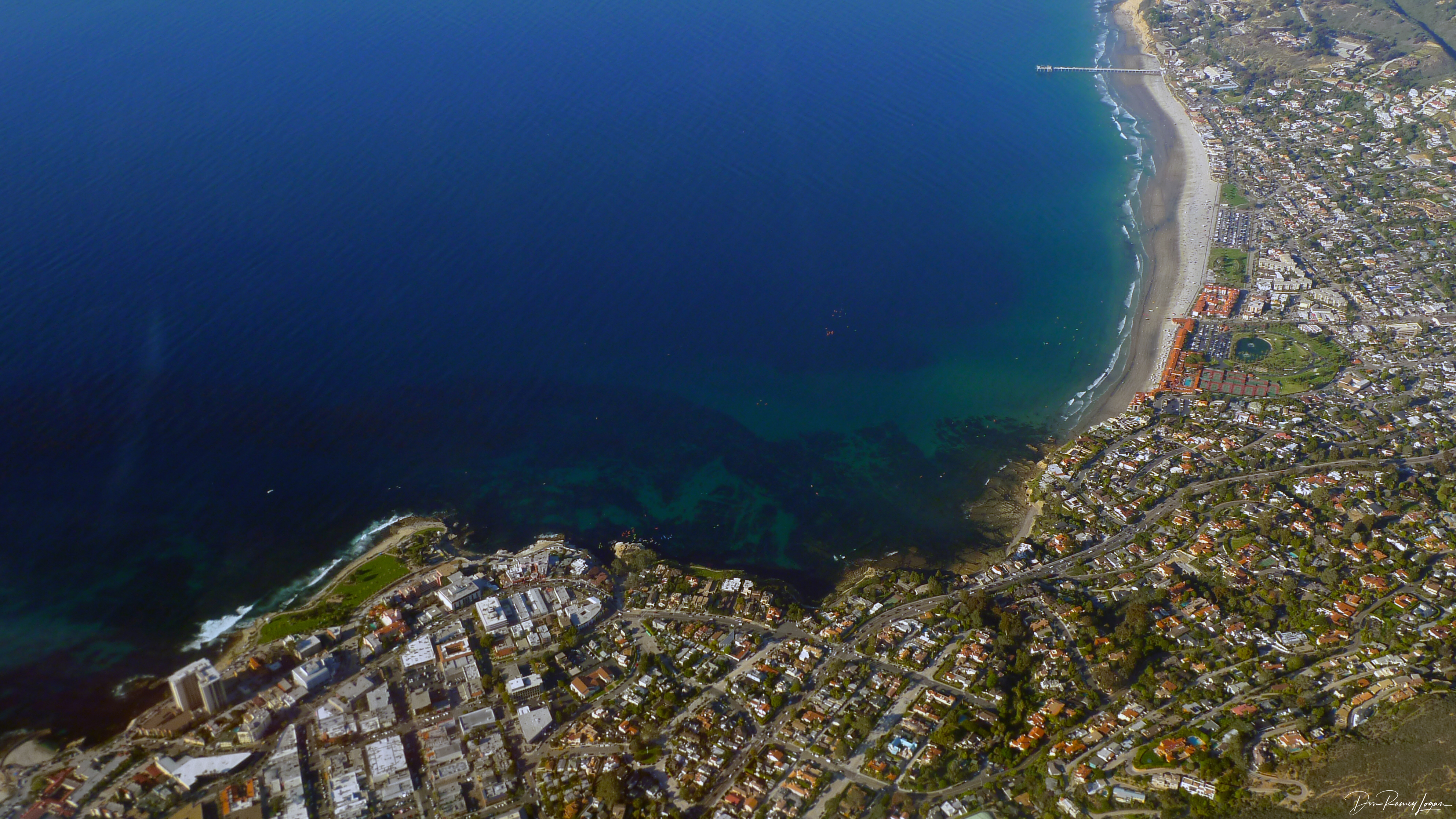 La Jolla, San Diego California photo D Ramey Logan